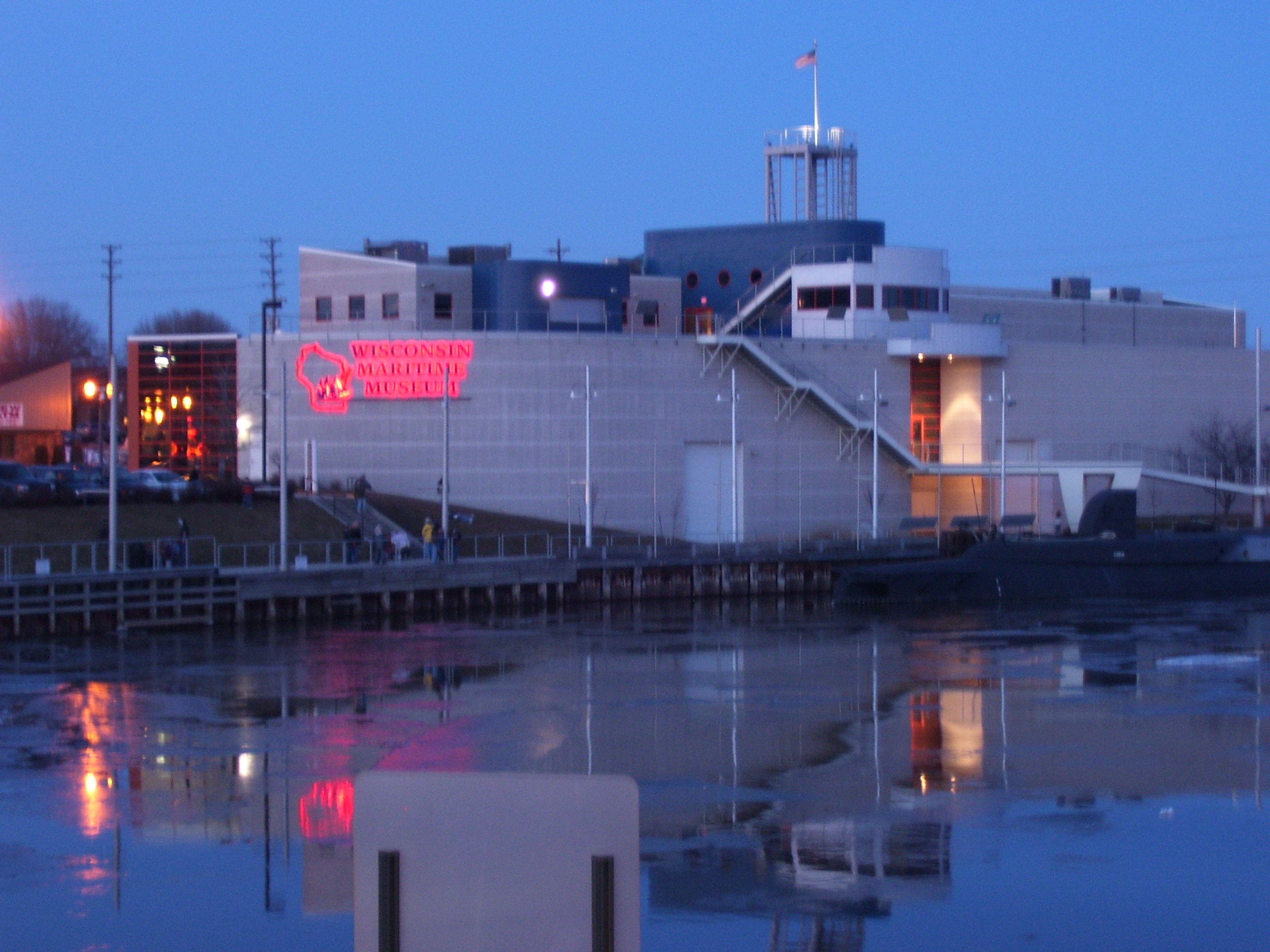 Wisconsin Maritime Museum in Manitowoc Wisconsin.